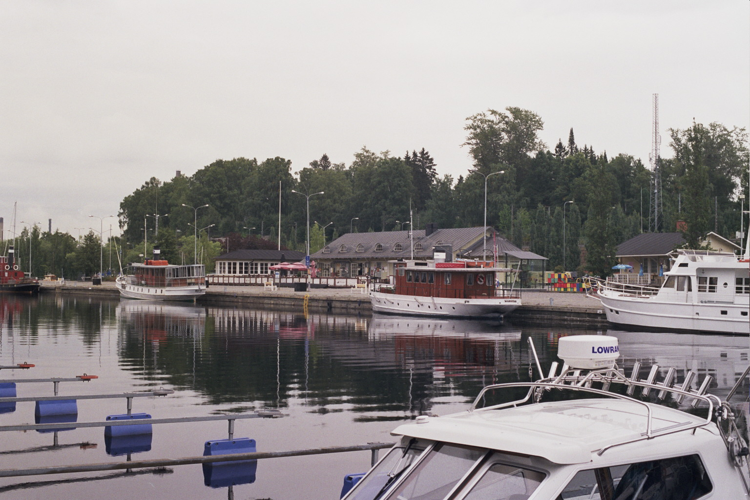 The harbour of Mustalahti at lake Näsijärvi in Tampere, Finland.